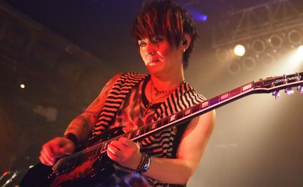 K.A.Z from Vamps performing at the Roseland Ballroom in New York City on December 8, 2013.